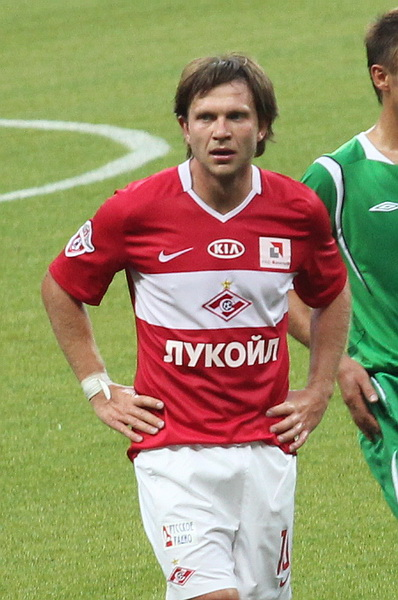 Ivan Saenko